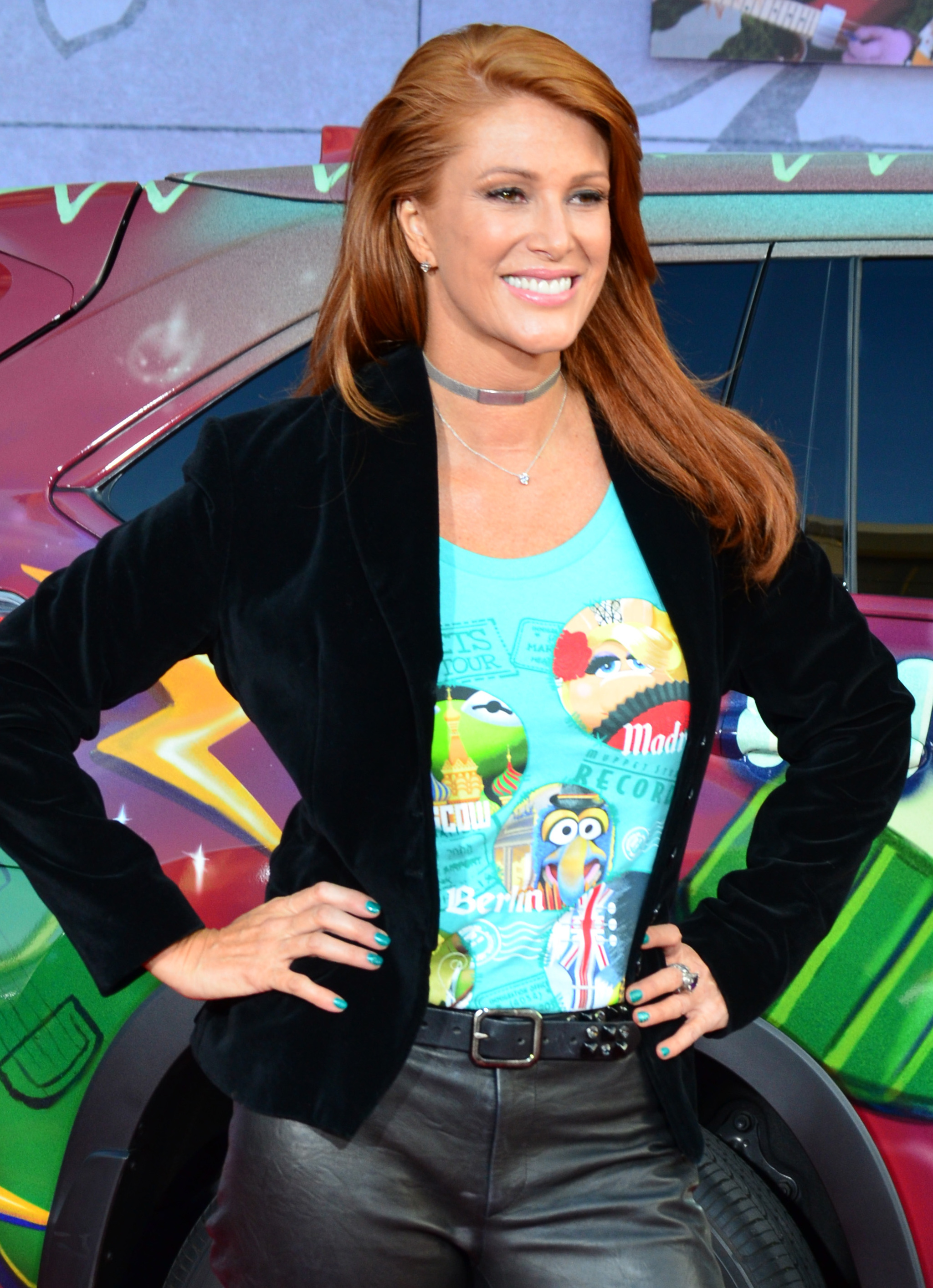 Angie Everhart at the Muppets Most Wanted Premiere at the El Capitan Theater in Hollywood on March 11, 2014